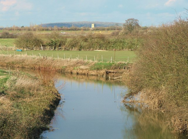 The River Ray